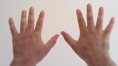 Two hand, ten fingers.